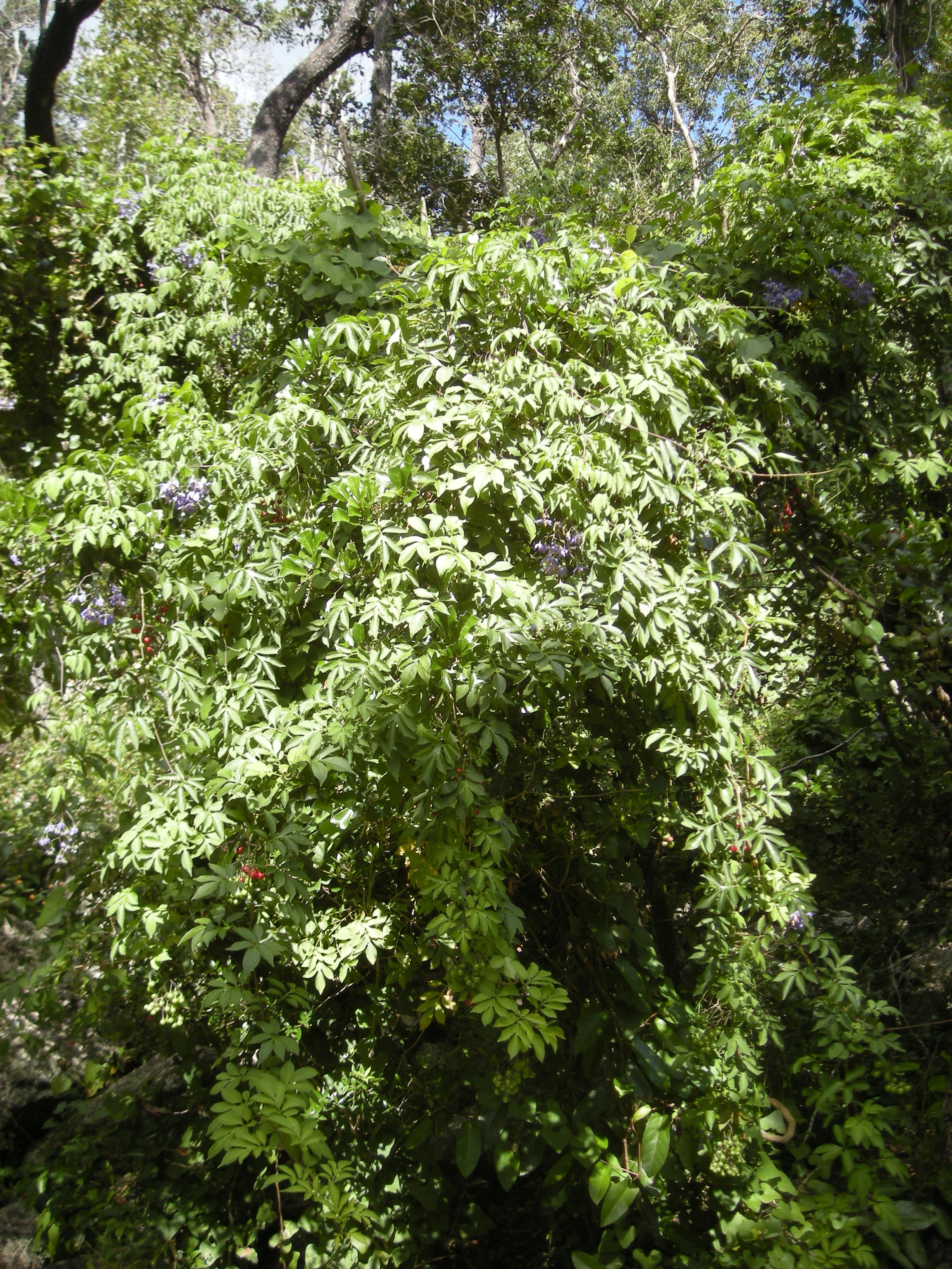 Solanum seaforthianum choking native vegetaion, Mt. Archer National Park, Queensland.